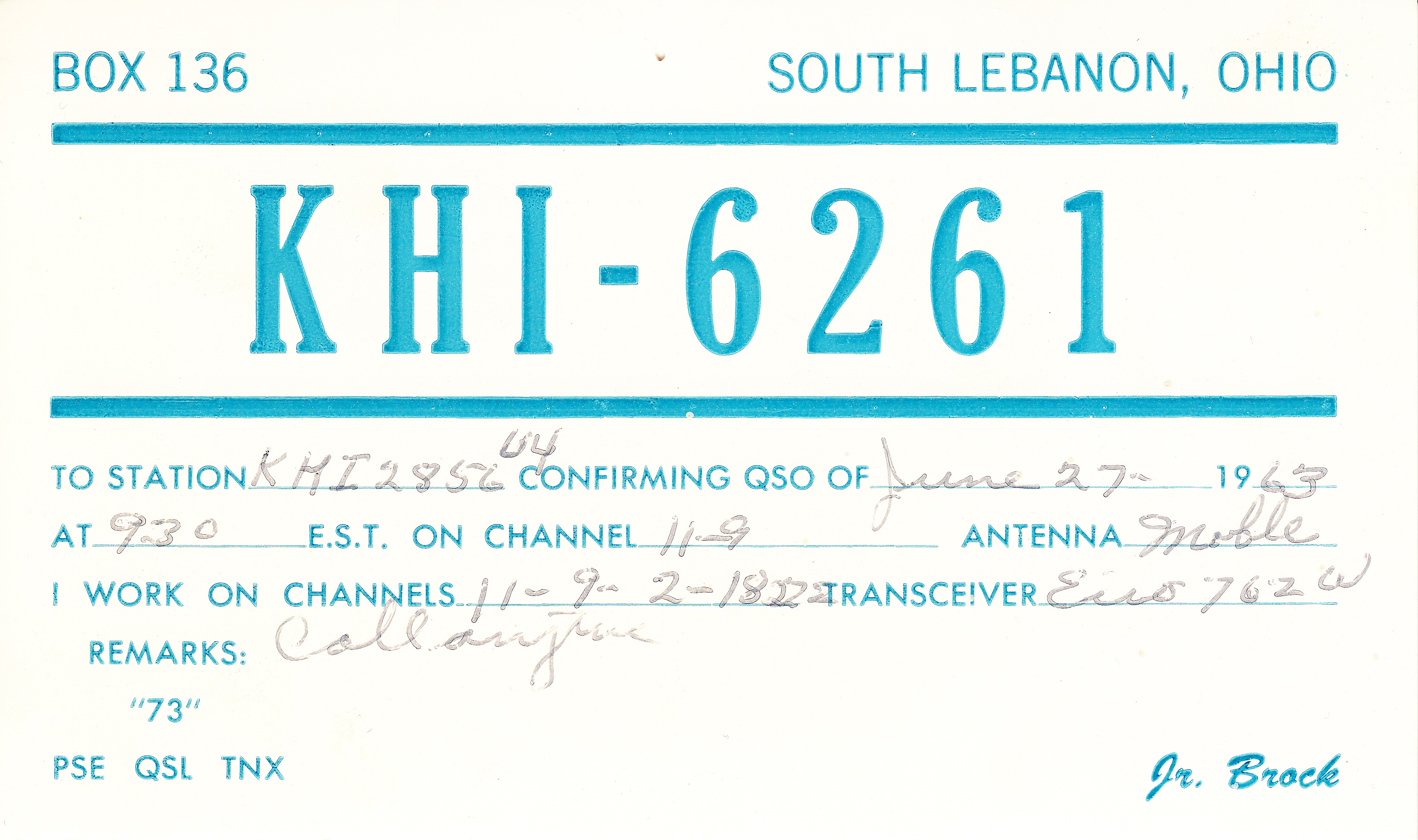 QSL card from a US CB operator KHI-6261, in South Lebanon, Ohio.